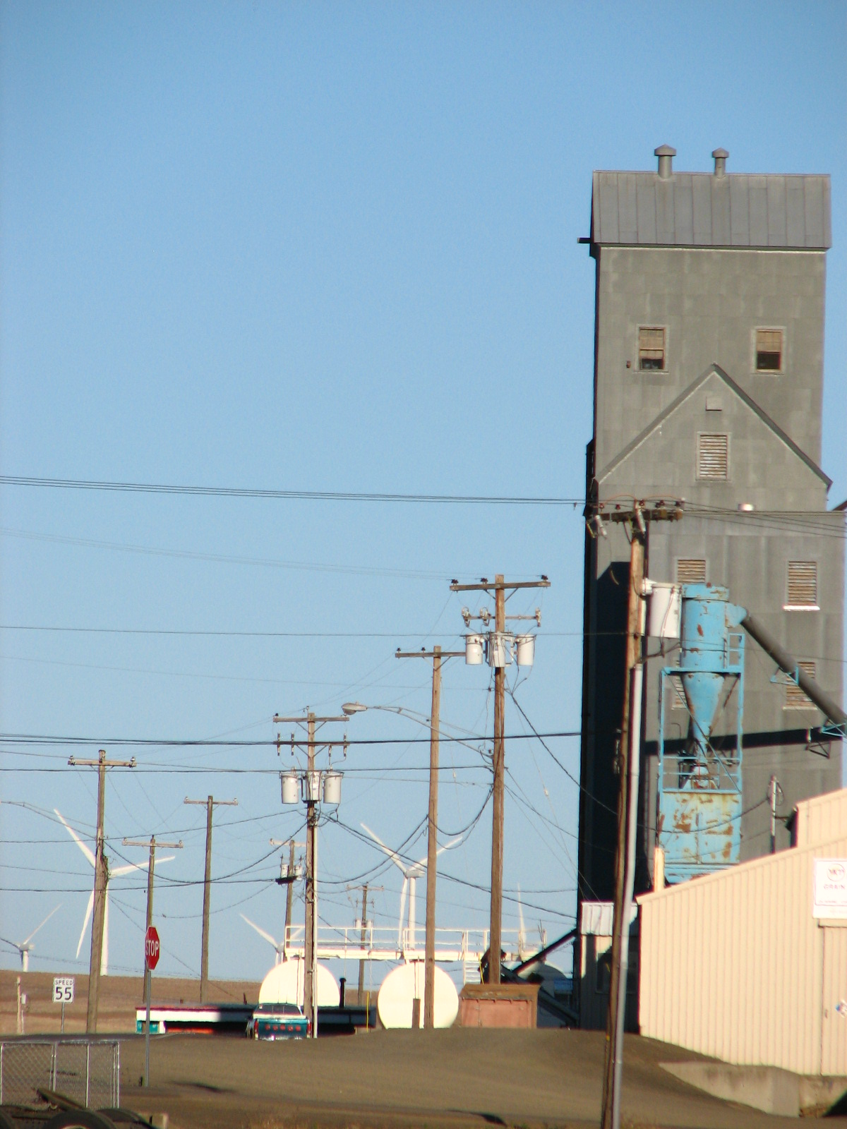 The agricultural industry has historically dominated Sherman County and surrounding portions of Oregon. More recently, wind power production has become a prominent economic feature of the area. Photo taken in Wasco, Oregon.